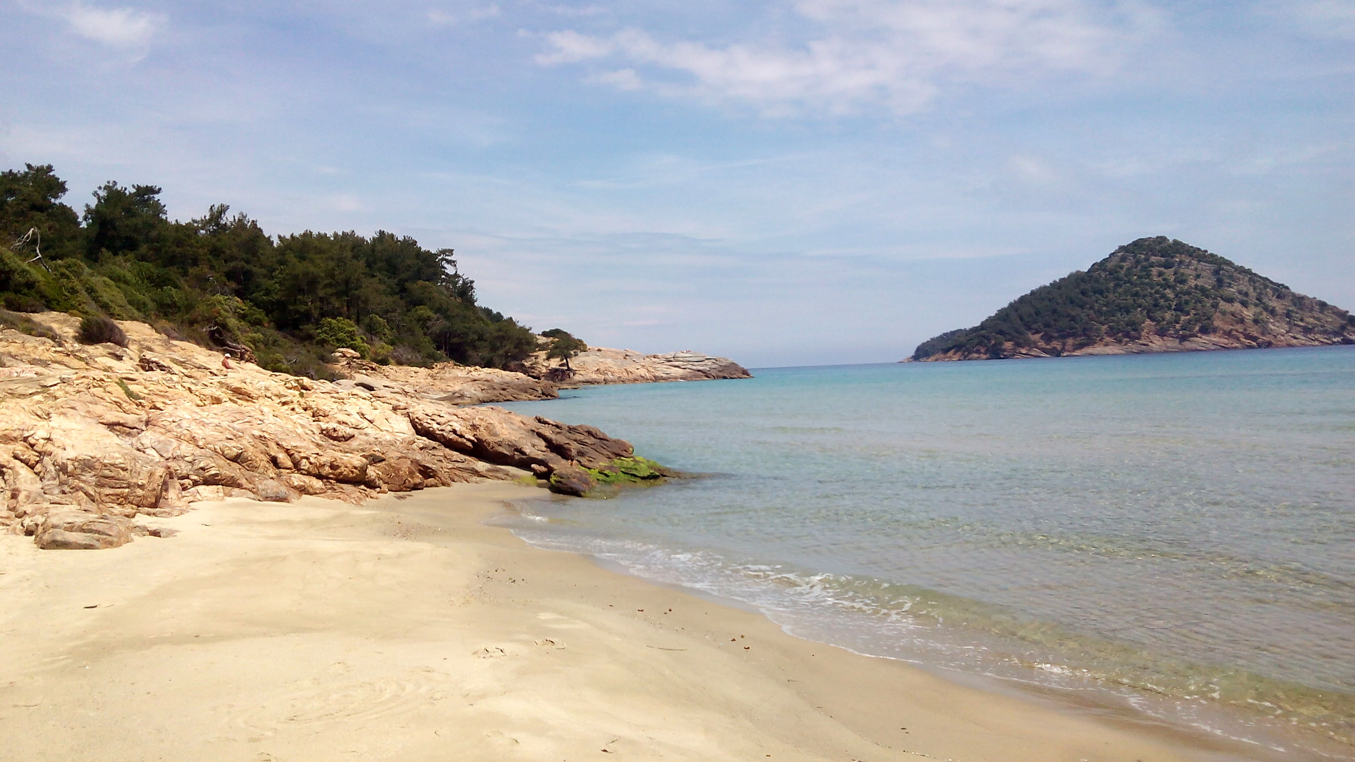 Nudist Beach, Paradise Beach, Kinira, Thasos